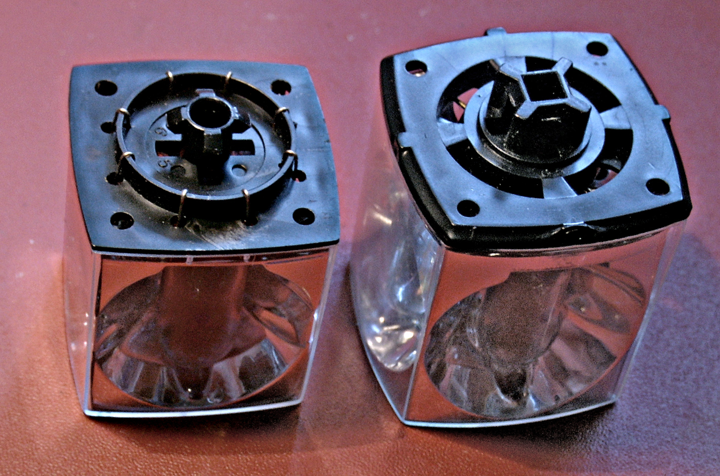 "Flashcube" (left) and "Magicube" (right) type flashbulb cartridges. The "Flashcube" is electrically ignited, the "Magicube" is ignited mechanically via a firing pin